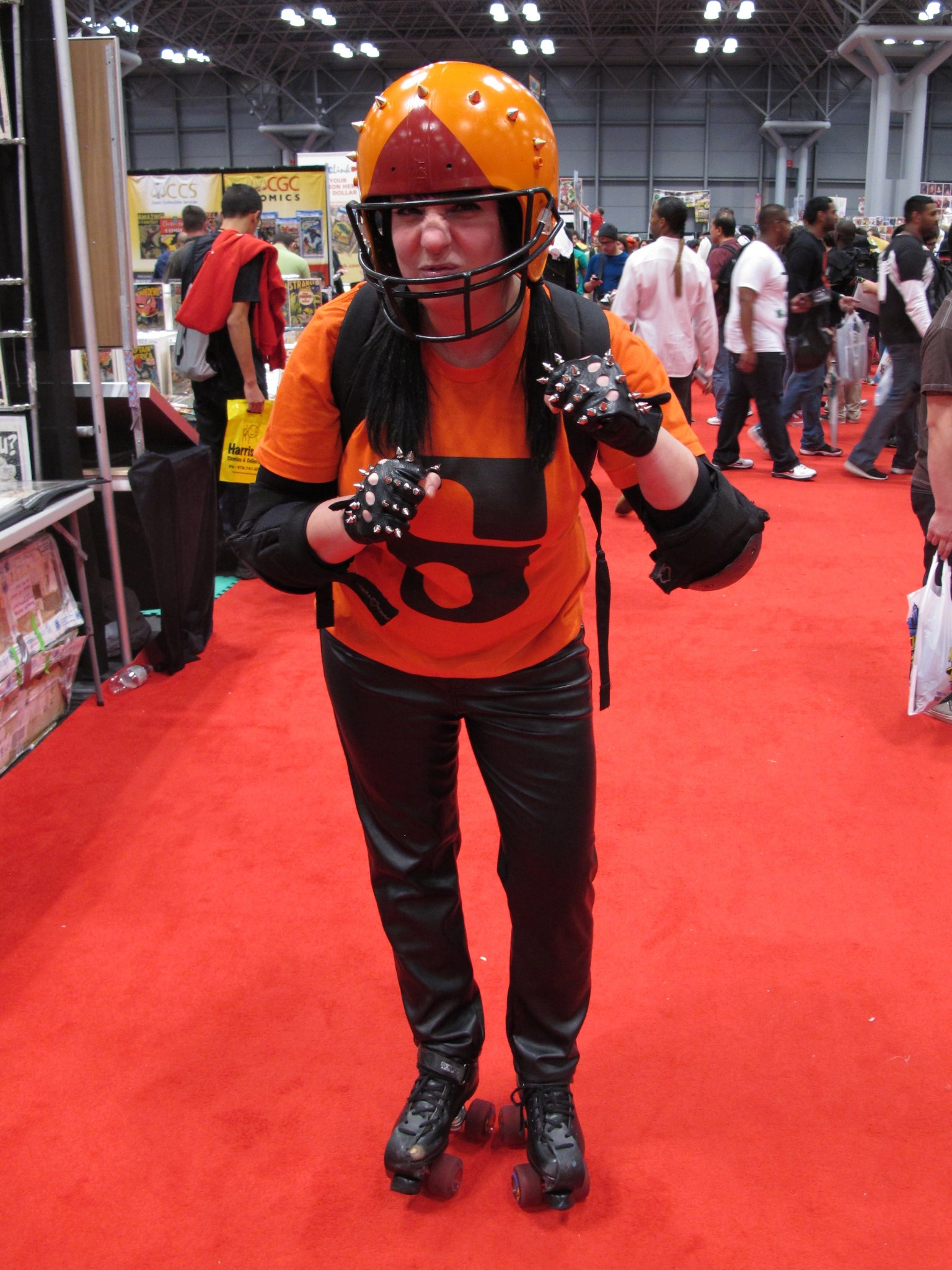 Jonathan E Cosplay at the 2014 New York Comic Con.